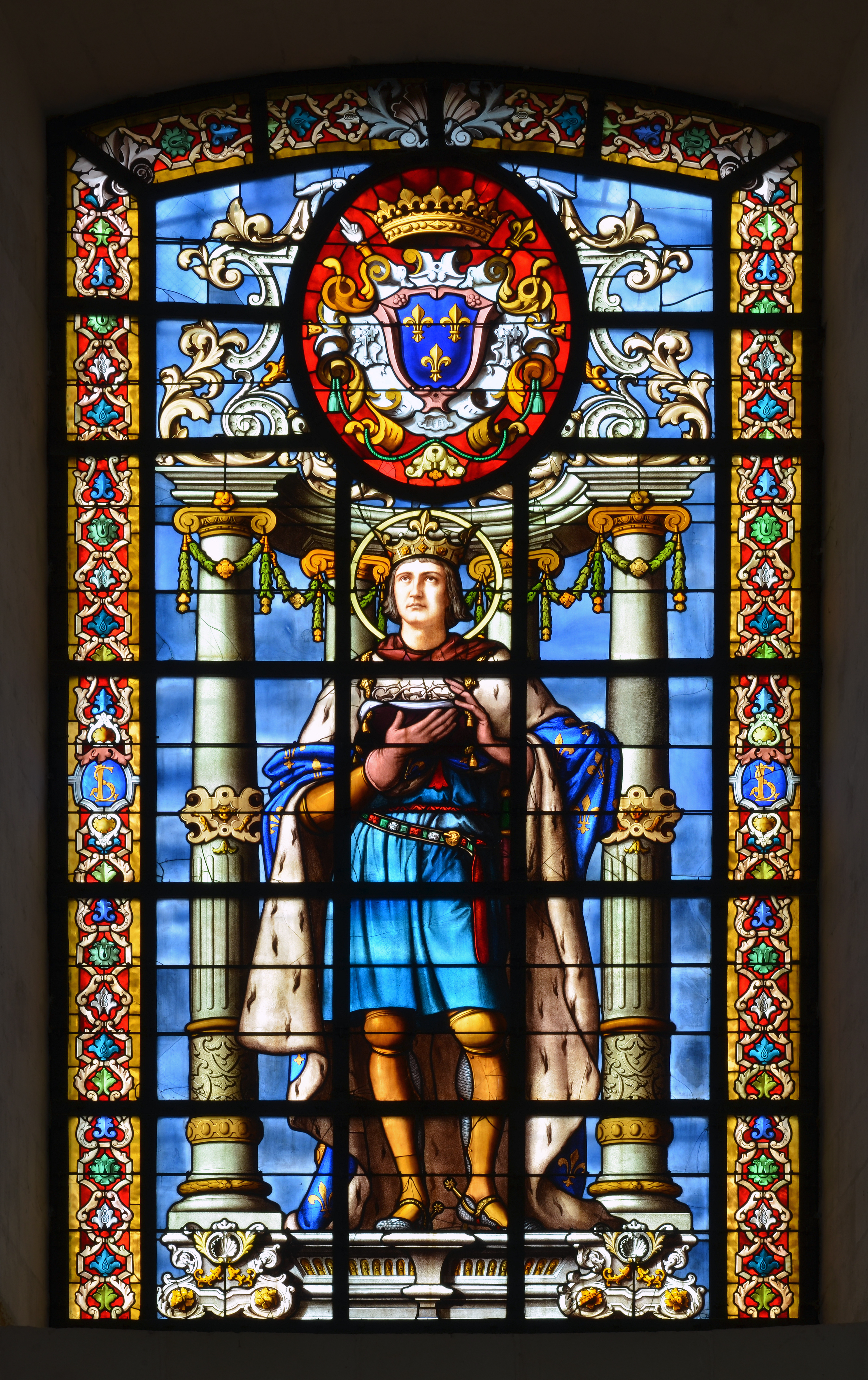 Stained glass window (1880) depicting Louis IX of France in La Rochelle Cathedral - Charente-Maritime, France. .